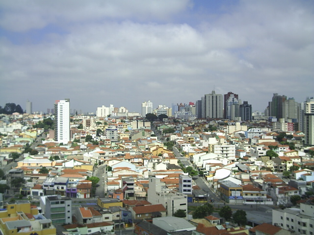 Neighborhood of São Caetano do Sul.